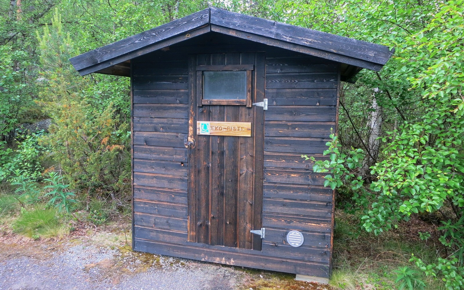 Trashbins of several different kinds of wastes are placed to this small house in Kenestupa – a village in the Arctic (Utsjoki, Finland).